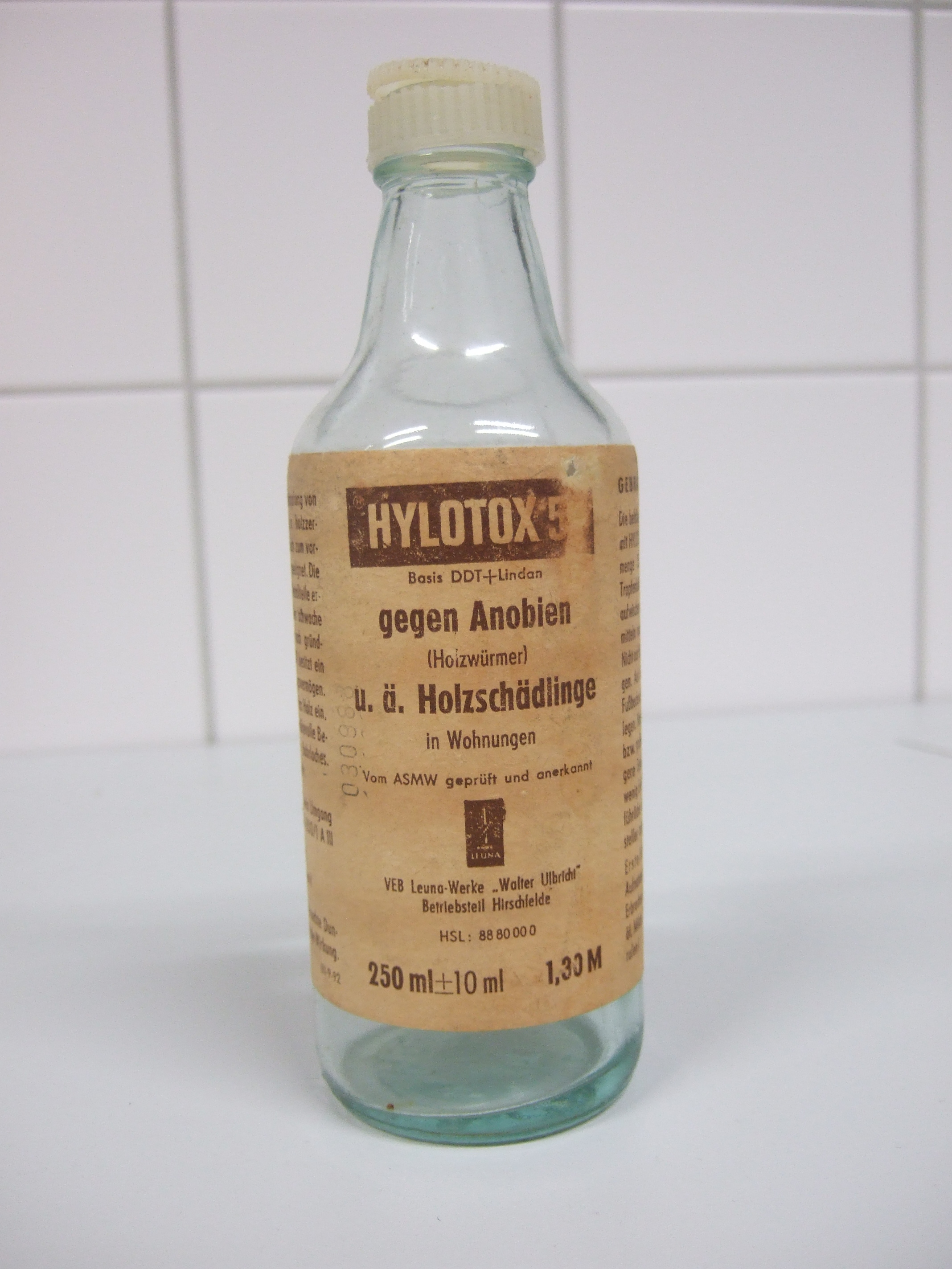 bottle of Hylotox59 front